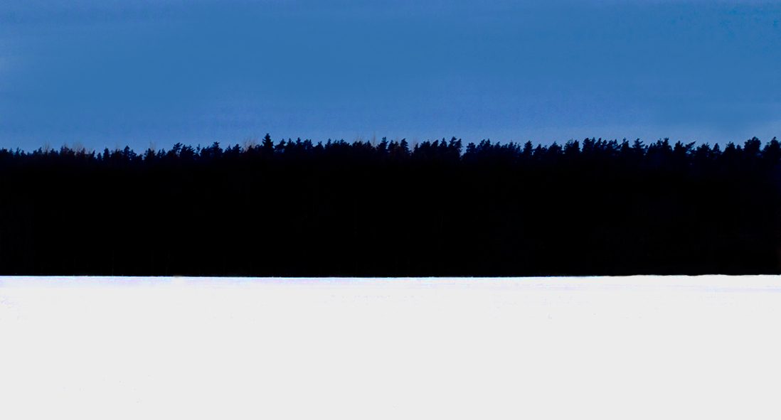 Possible inspiration for the Estonian flag.